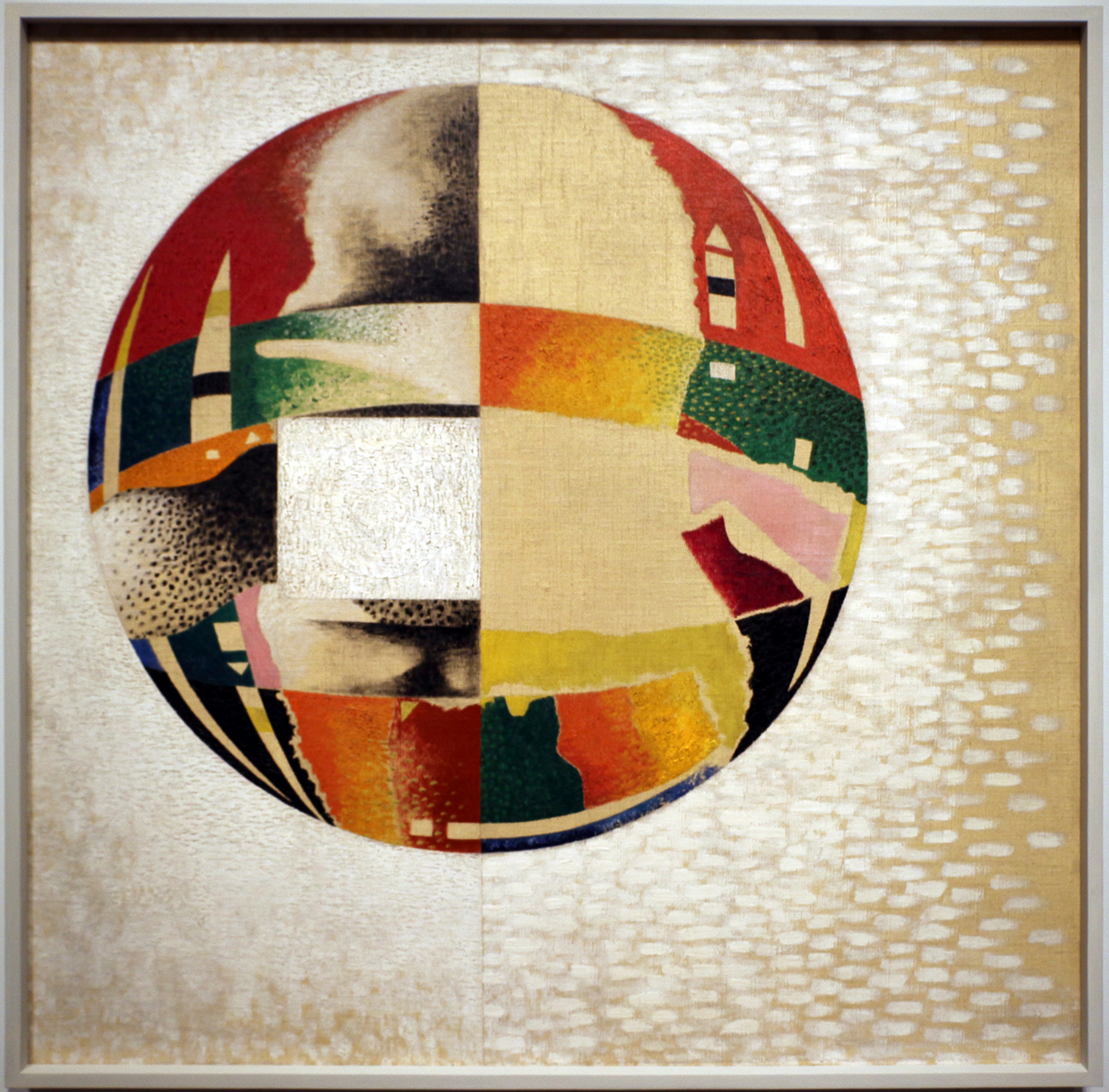 Moholy-Nagy: Future Present (2016 exhibition)